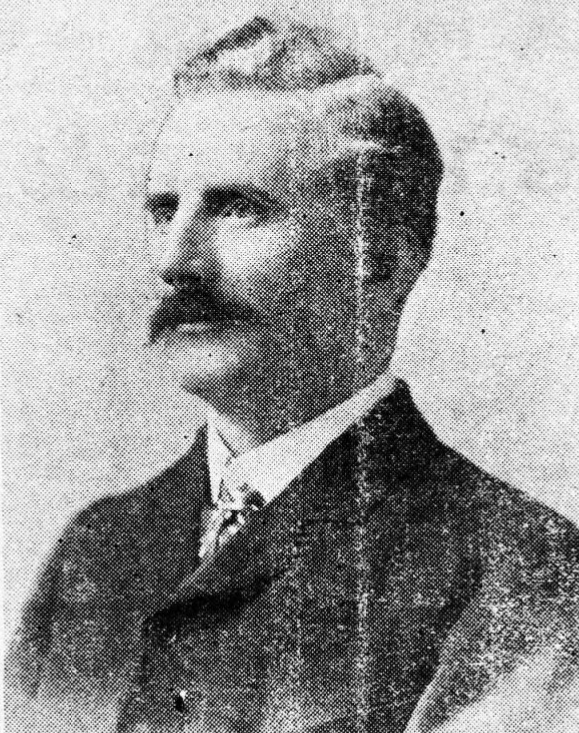 Alfred Onions, Welsh Member of Parliament and trade union leader